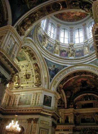 Inside of the dome of the St. Isaac Cathedrale in St. Petersburg